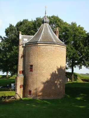 Powdertower at castle Loevestein